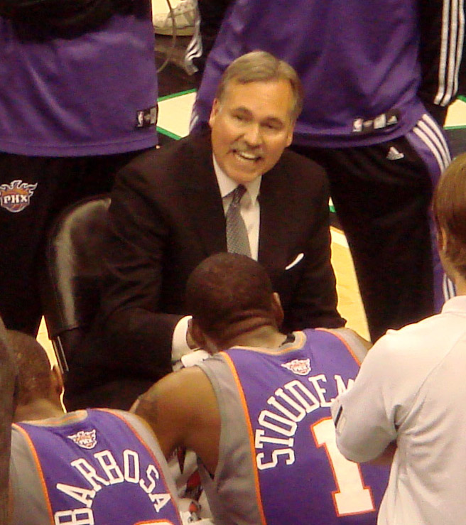 Mike D'Antoni, coach of the Phoenix Suns, during a 2007-08 NBA season game against the Minnesota Timberwolves at the Target Center arena in Minneapolis, Minnesota.